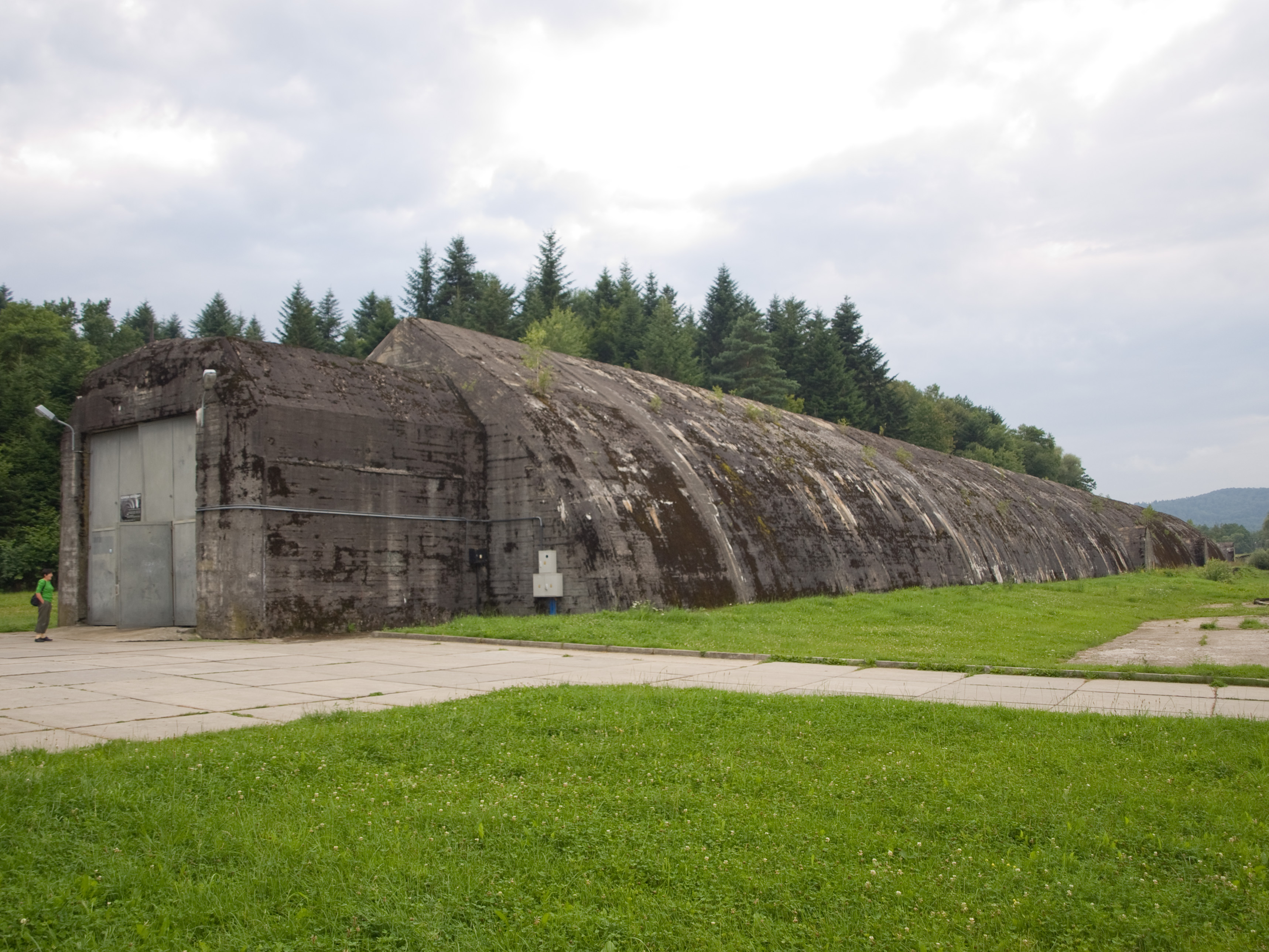 Military tunnel, Stępina, Subcarpathian Voivodeship